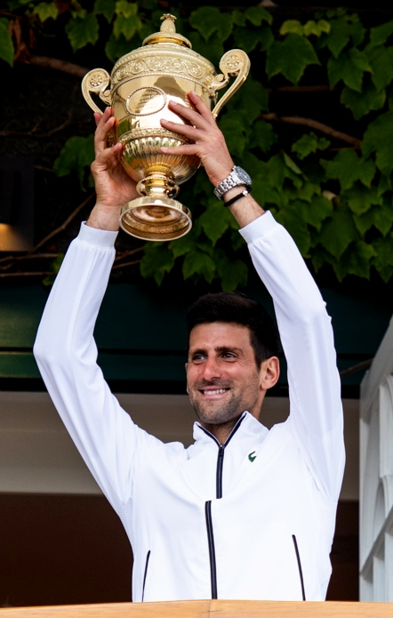 Novak Djoković holds Gentlemen's Singles Trophy at the 2019 Wimbledon.